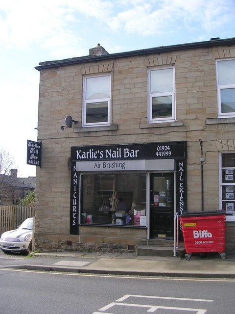 Karlies Nail Bar - Chapel Lane